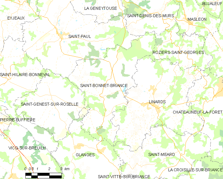 Map of French municipality Saint-Bonnet-Briance